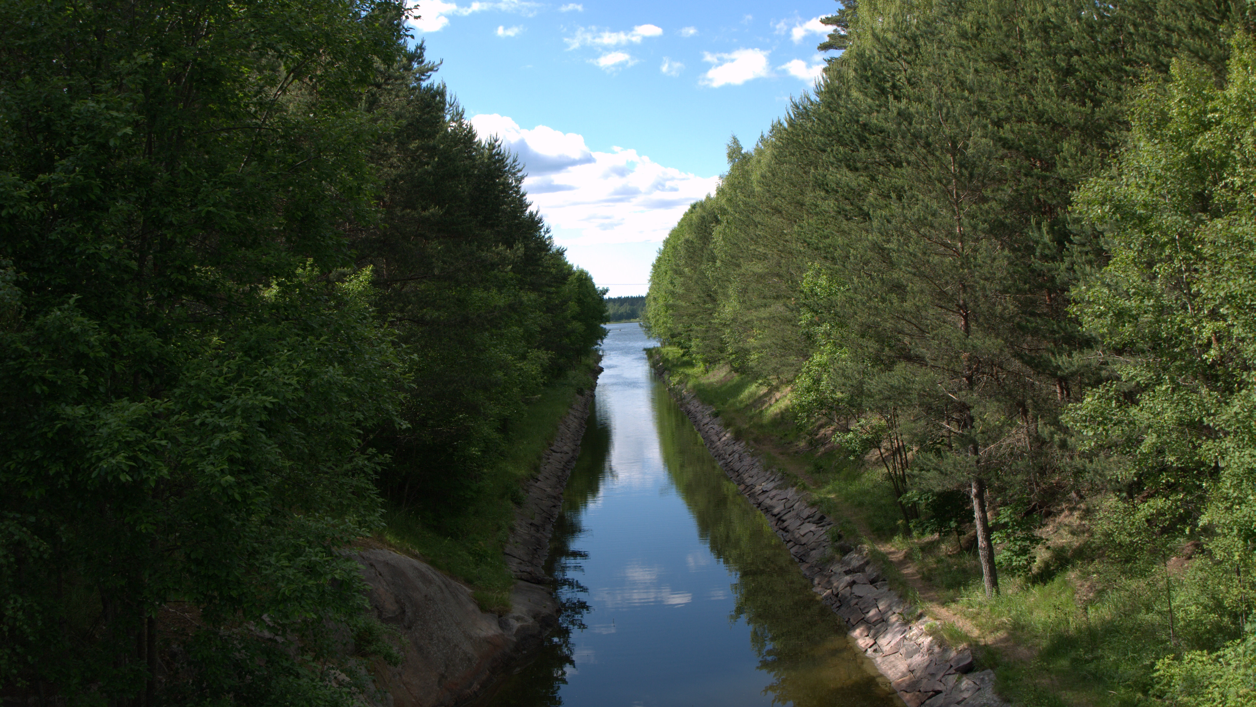 Jomalvik canal in Ekenäs, Finland